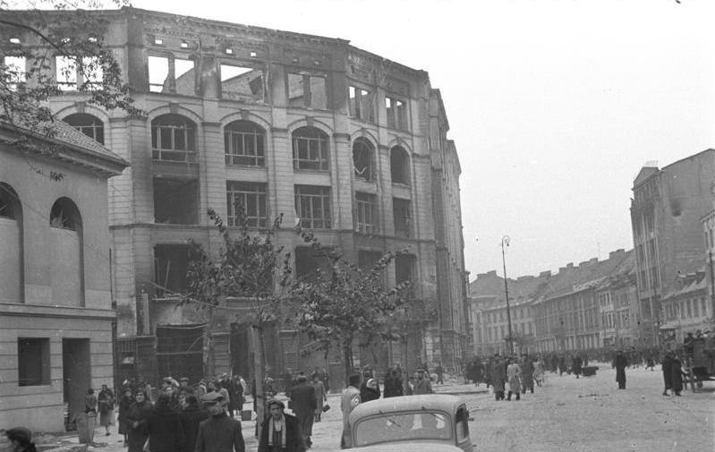 Warsaw during World War II